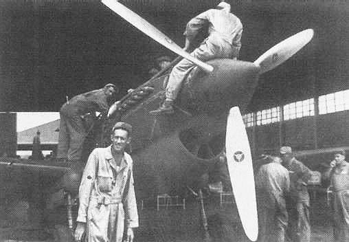 3d Pursuit Squadron P-40Cs being serviced at Nichols Field, Luzon